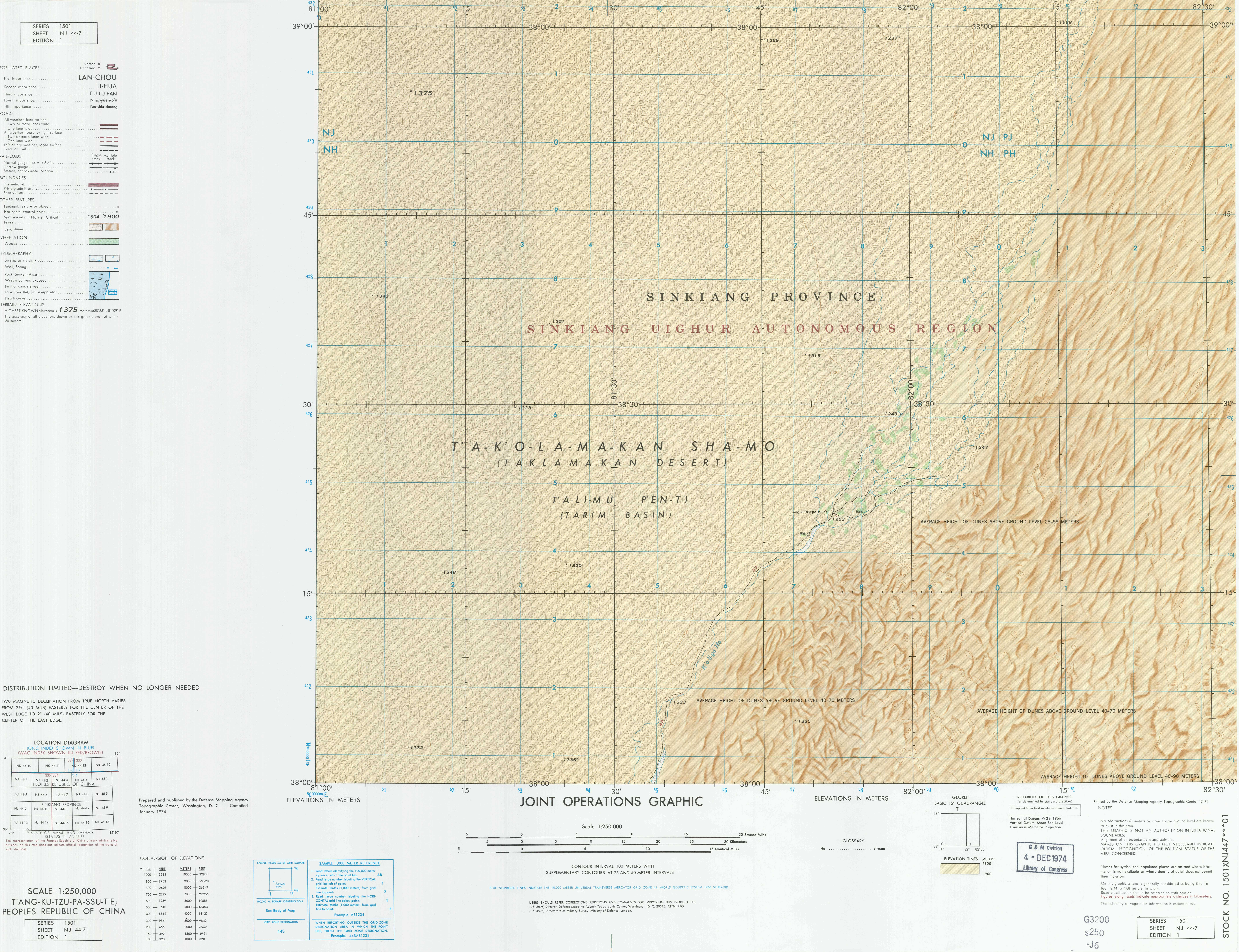 NJ-44-7 Takla Makan Desert